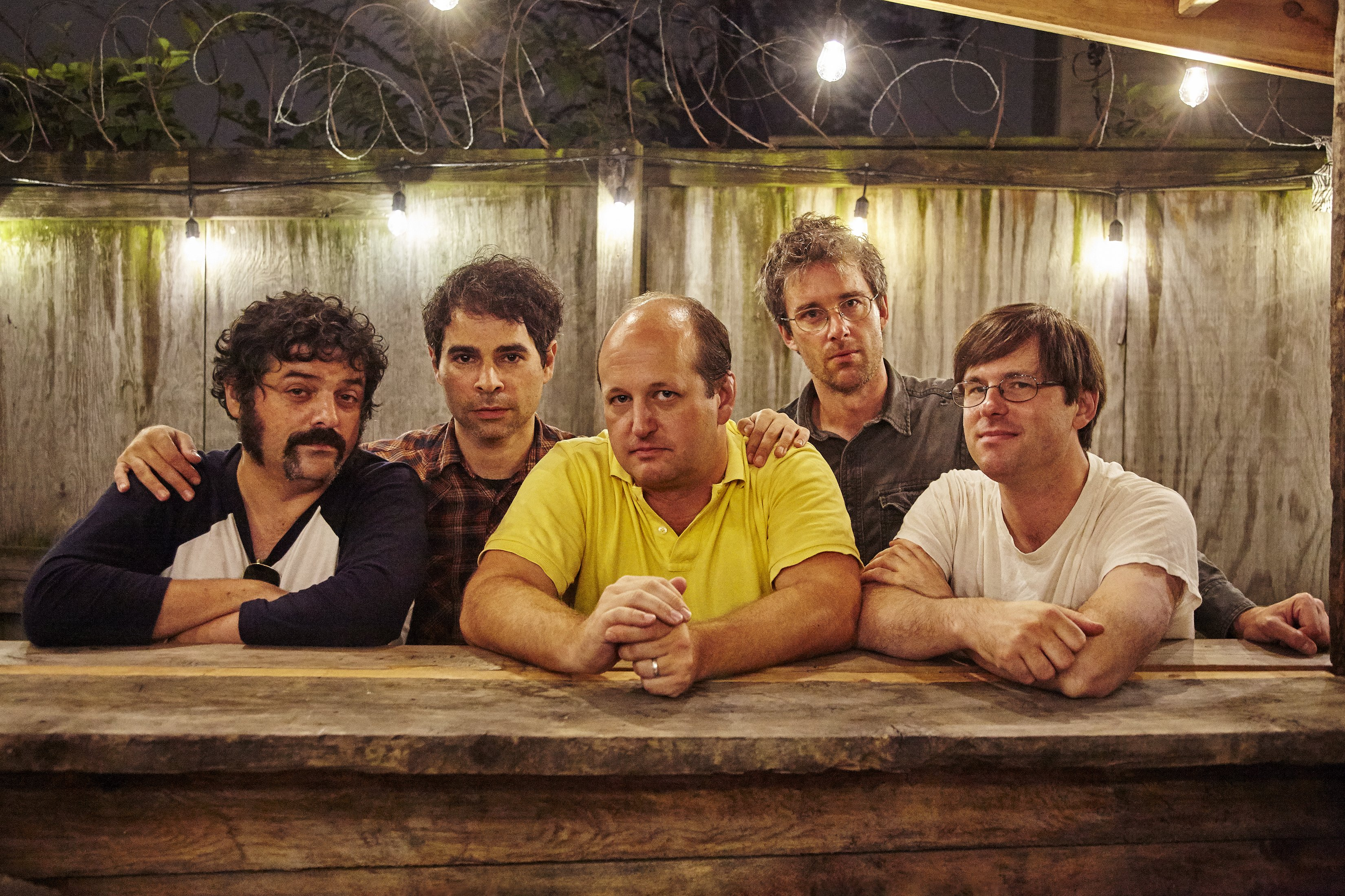 Oneida (band), c. 2017